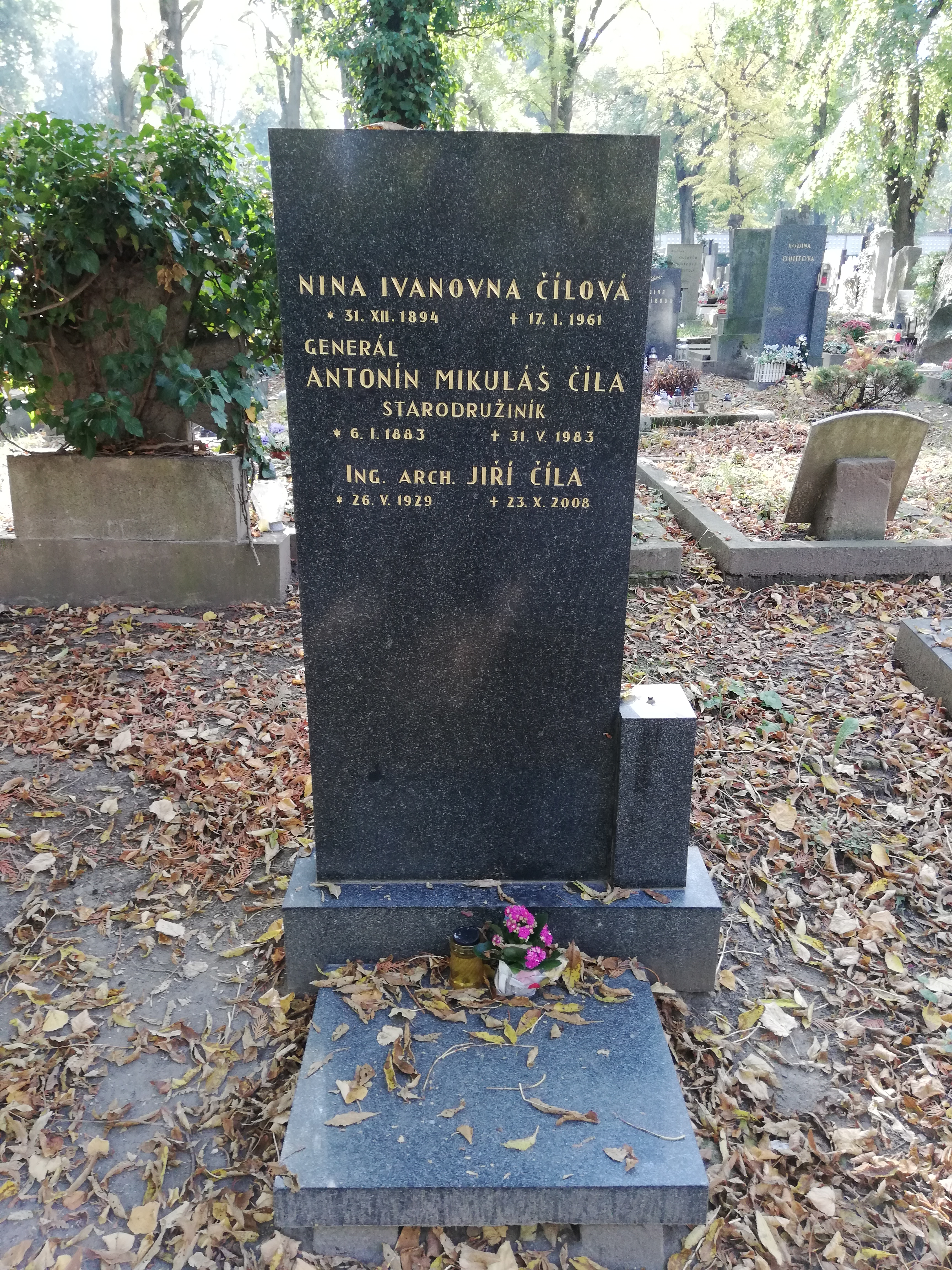 Antonín Mikuláš Číla (or also: Mikuláš Antonín Číla; baptized Antonín Otakar) (* January 6, 1883, Nová Paka - May 31, 1983, Prague) was a Czech teacher and academic painter, a member of the Czechoslovak Legions on the Russian Front and a Czechoslovak Brigadier General. Photo of family grave. Grave position: Czech Republic, Prague, Olšanské hřbitovy (Olšany Cemetery), part: 2ob, department: 20, grave number: 3 (abbreviated: 2ob, 20, 3)